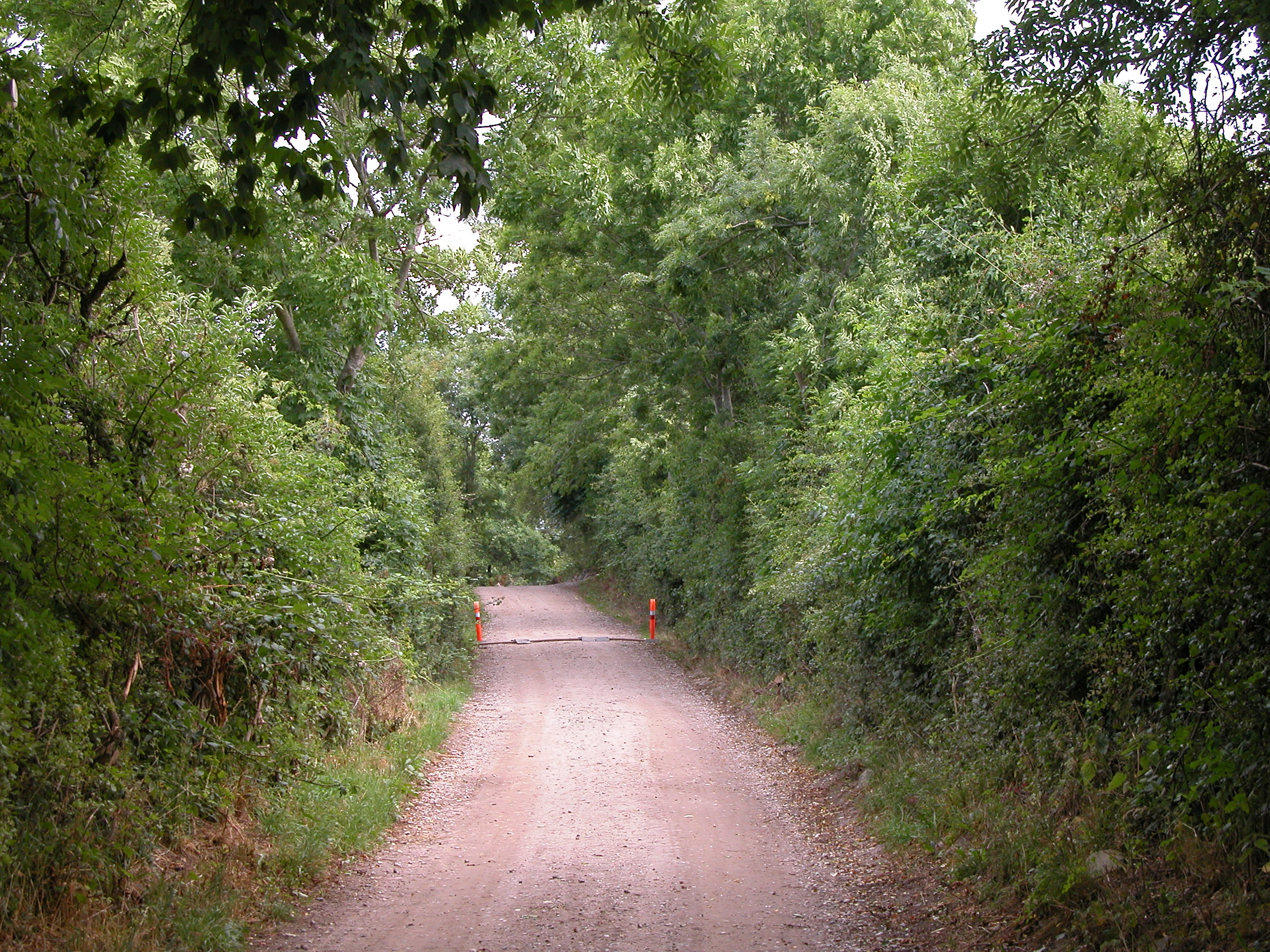 Old street on the island of Barsø - Denmark